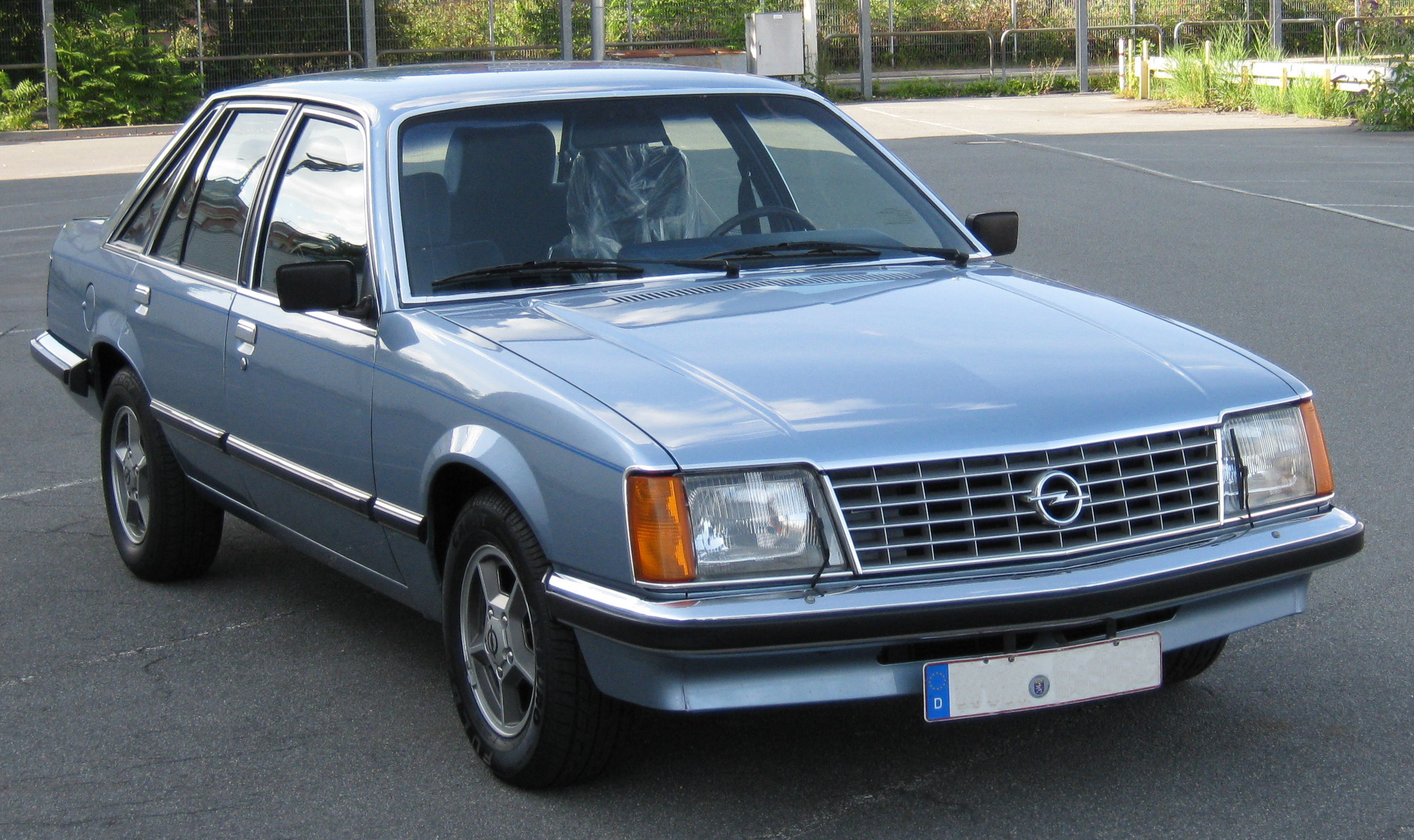 Opel Senator A (3.0 E CD 12/1978) at OPEL area Ruesselsheim / Tor 45